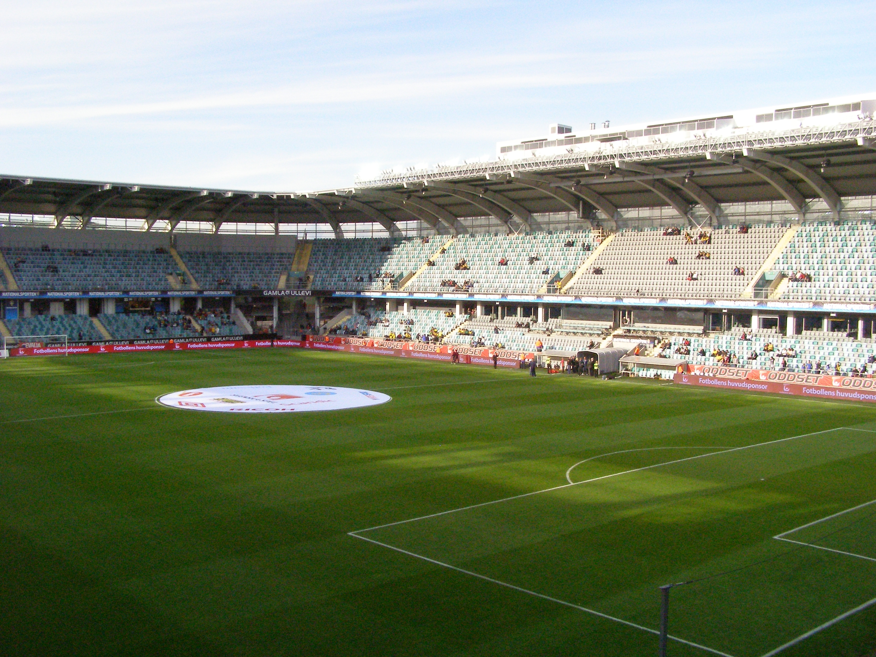 Gothenburg - Gamla Ullevi - Sweden-Iceland friendly